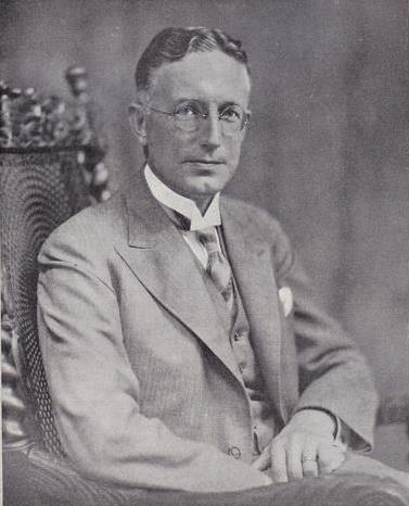 Swedish clergyman, theologian and politician Otto Holmdahl (1881-1971)